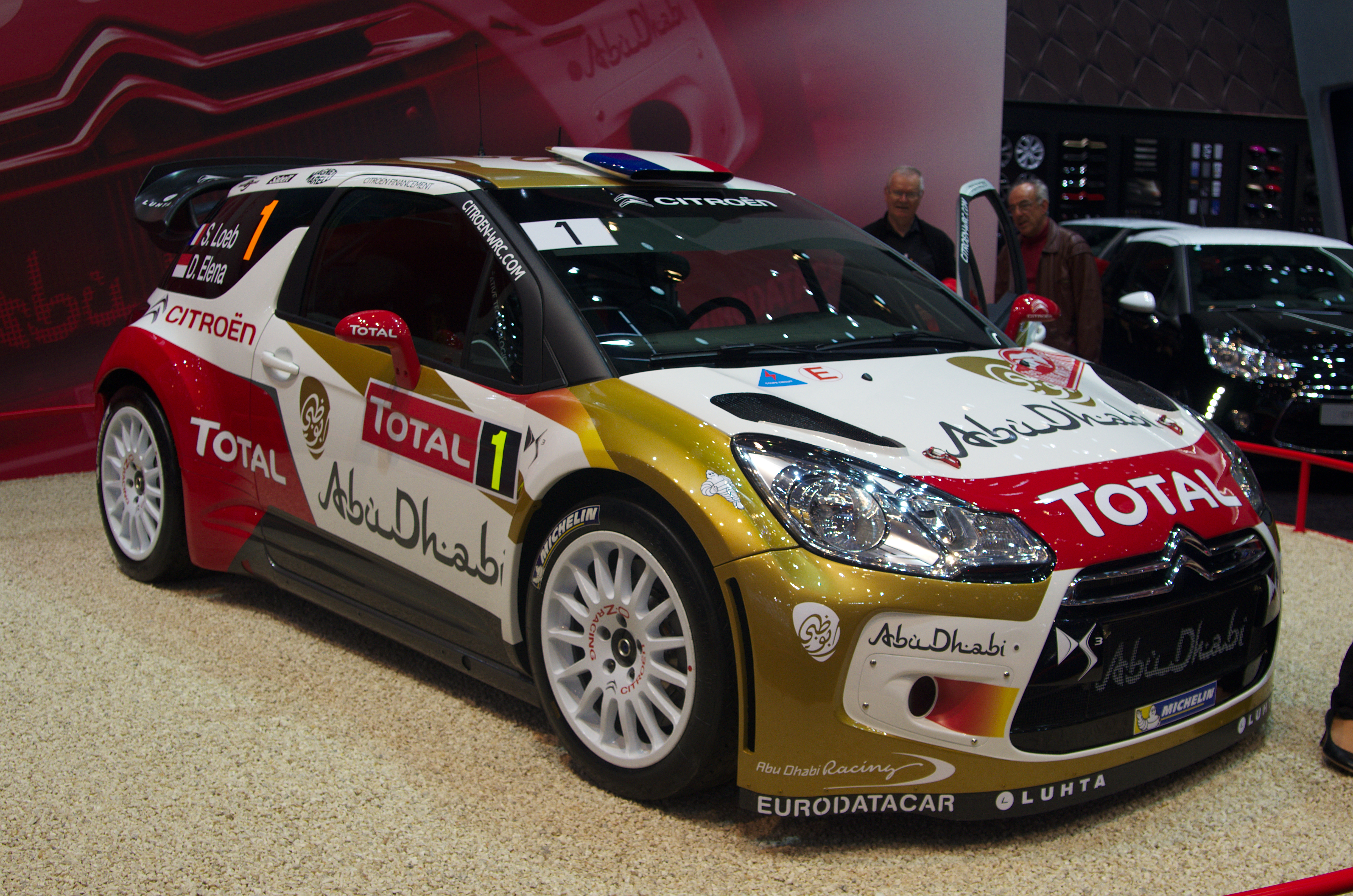 Geneva MotorShow 2013 - Citroen DS3 WRC